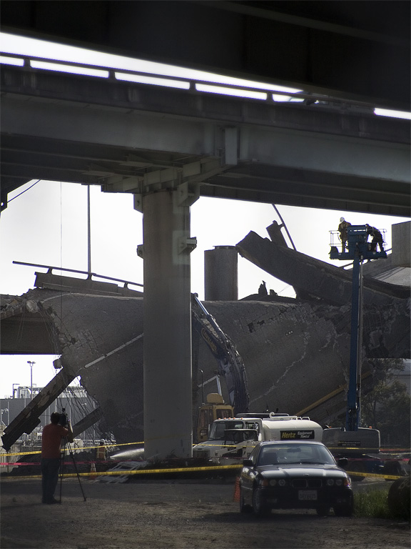 Photograph of the 2007 MacArthur Maze collapse, described by Flickr submitter: "580, meet 880. Wanted to get closer, and shoot from the West Oakland warehouses, but they were all blocked off by the police. Taken in the IKEA parking lot."